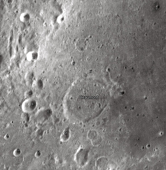 Beaumont lunar crater as seen from Earth with satellite craters labeled